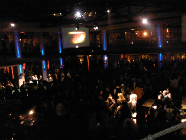 Capannina di Franceschi